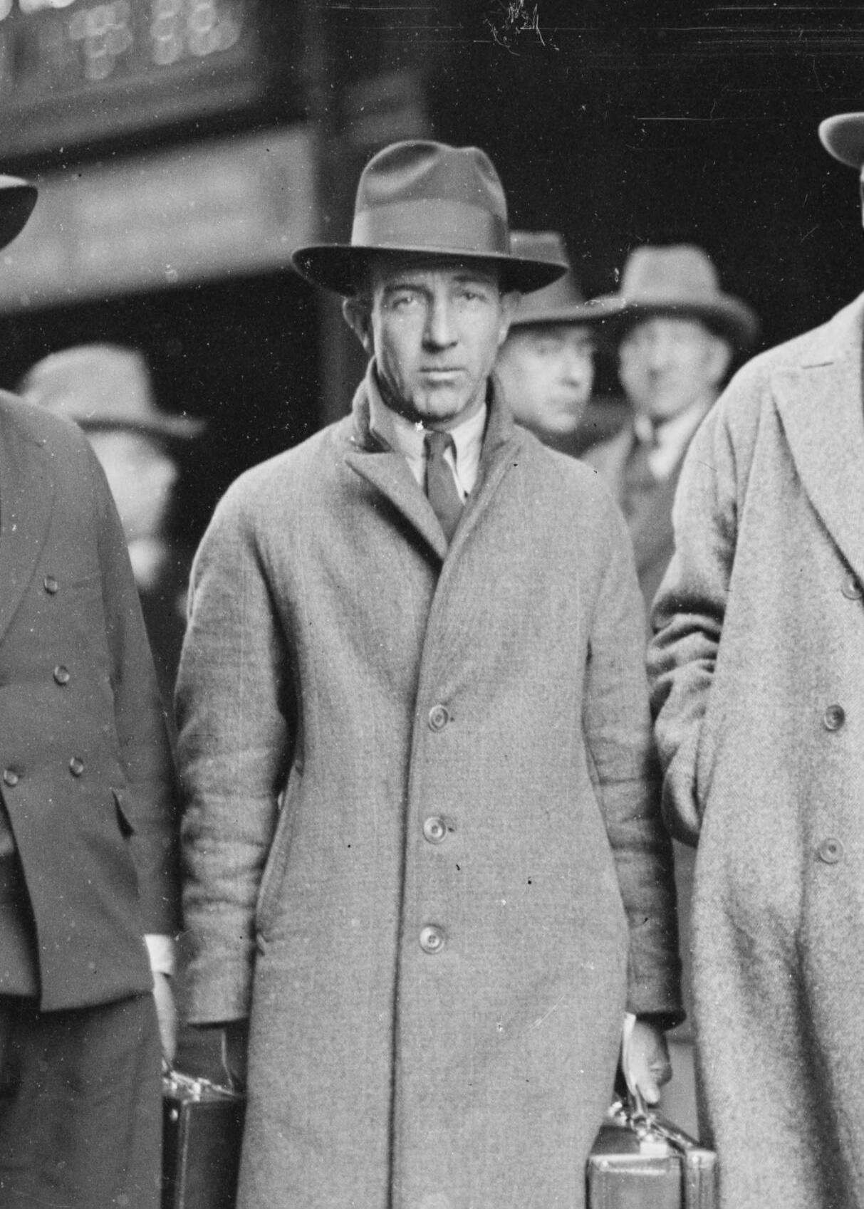 Delegates to the 1933 ALP Federal Conference in Sydney: John Madden (Tasmania) Bill Colbourne (New South Wales) Gordon Brown (Queensland) Arthur Calwell (Victoria) William Forgan Smith (Queensland)